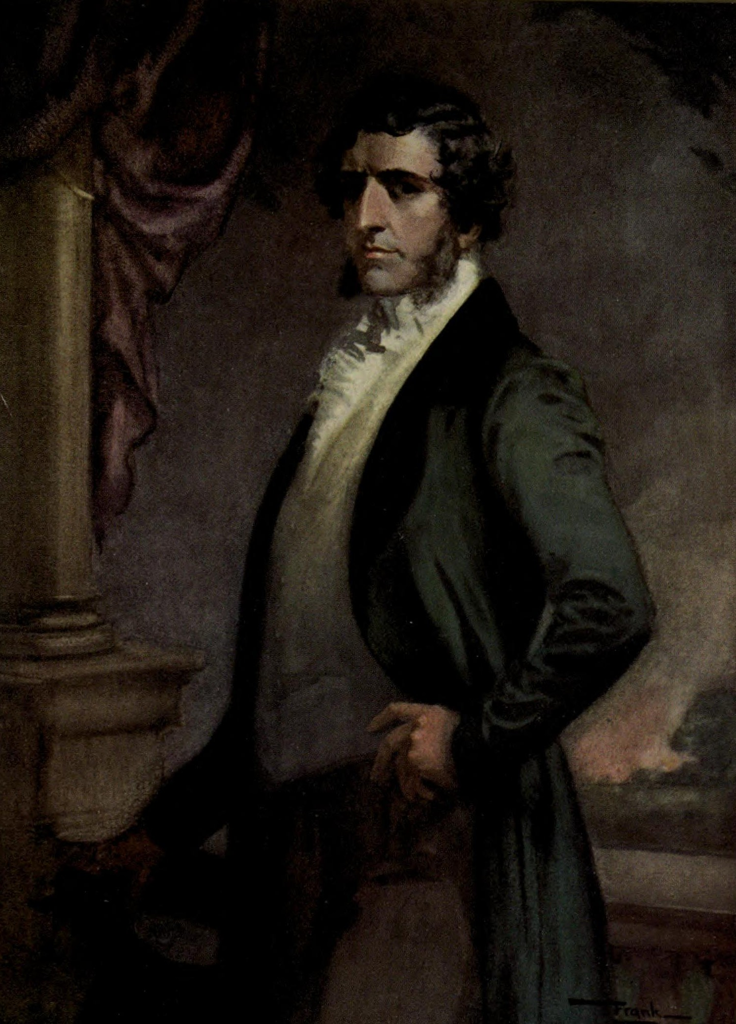 Edward Murstone a character in Charles Dickens' David Copperfield